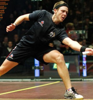 Ryan Cuskelly during Australian Open Squash 2012